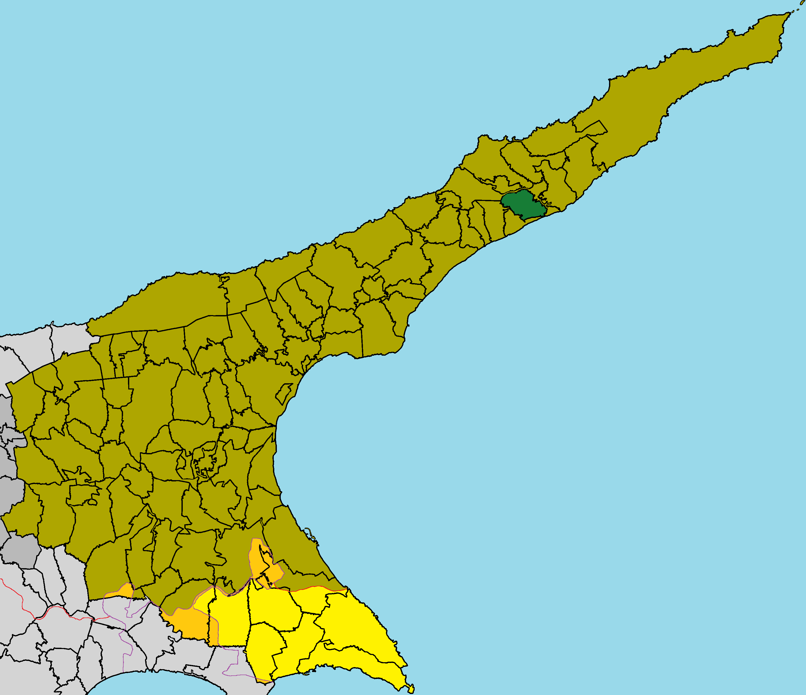 Agios Symeon in Famagusta District (de jure).